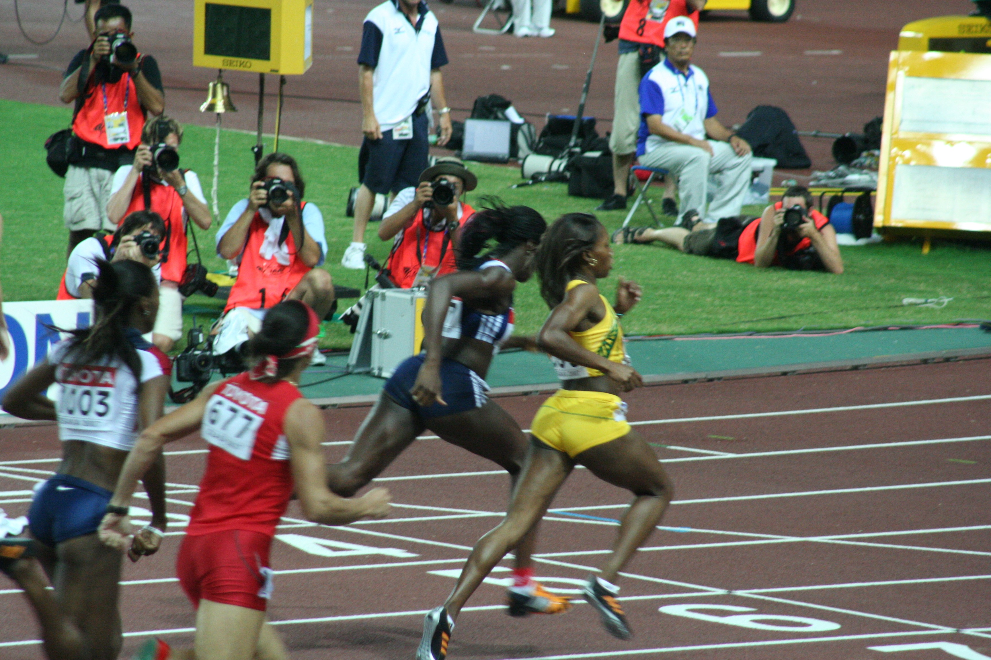 World Athletics Championships 2007 in Osaka - at the finishing line of the women's 400 metres final. Christine Oruhuogu from Britain is overtaking Novlene Williams (Jamaica) who had led the field until close to the end. (not in picture: 2nd placed Nicola Sanders) DeeDee Trotter (1003), Ana Guevara (677)